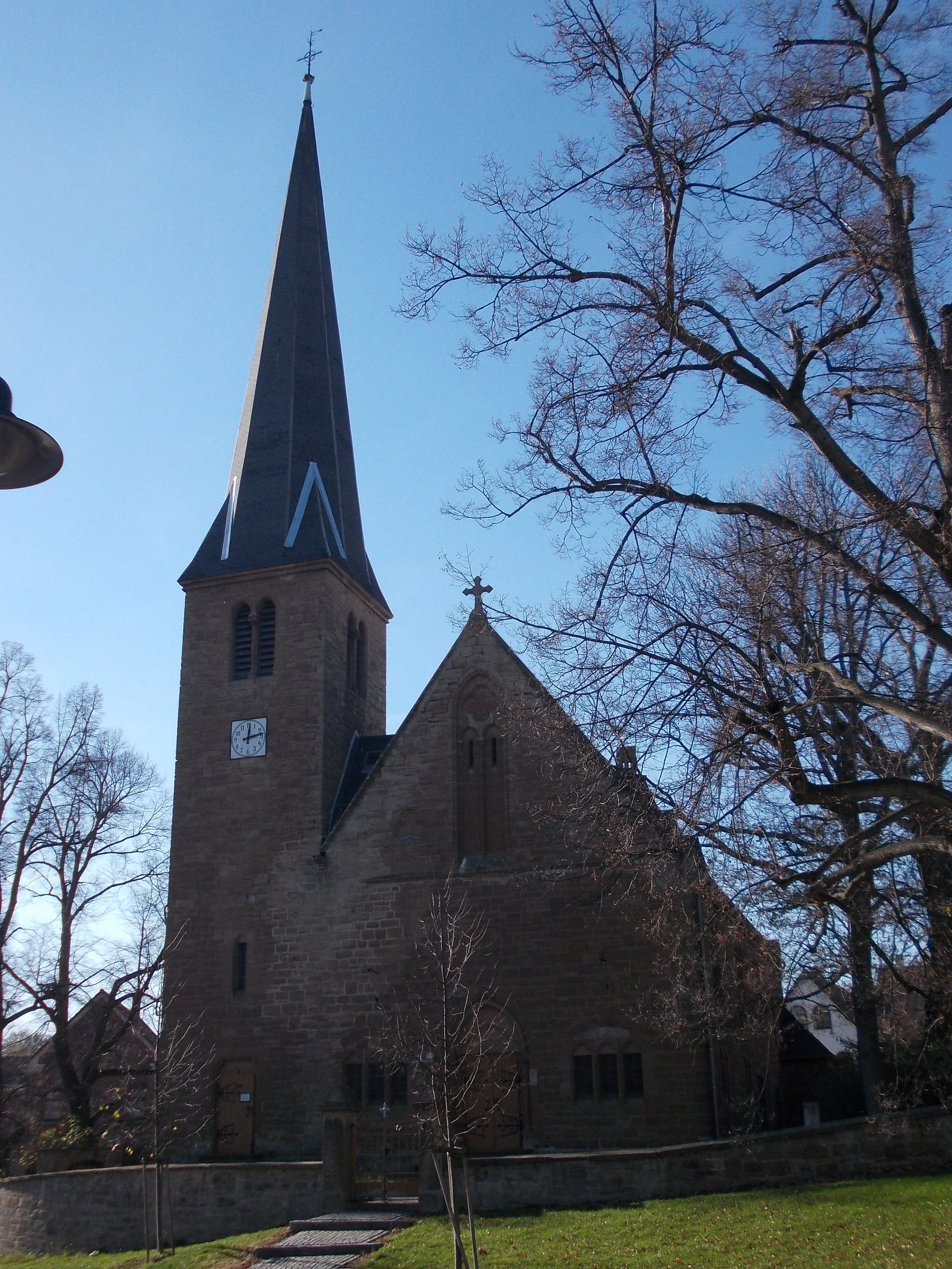 Kretzschau church (district: Burgenlandkreis, Saxony-Anhalt)